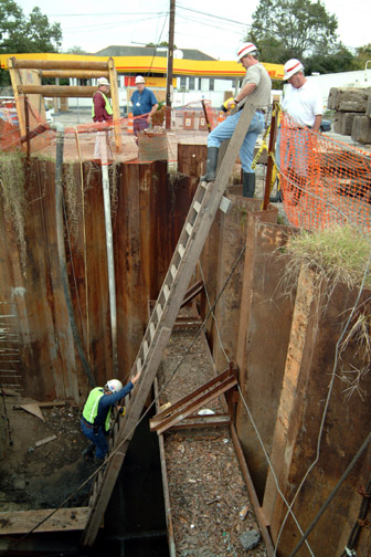 New Orleans: "Checking out SELA work. The Corps of Engineers’ Kenny Crumholt, team leader, and Tim Roth, resident engineer, visit construction of a $61.7 million system in New Orleans. Alan Hunter, the Corps’ New Orleans area engineer, watches (background, blue shirt). It’s part of the SELA rain-flood project for the metro area, featuring new or improved drainage canals and expansion of pump-station capacity. This work is at South Claiborne and Napoleon in the Uptown neighborhood, at the intersection of the system’s new canals."